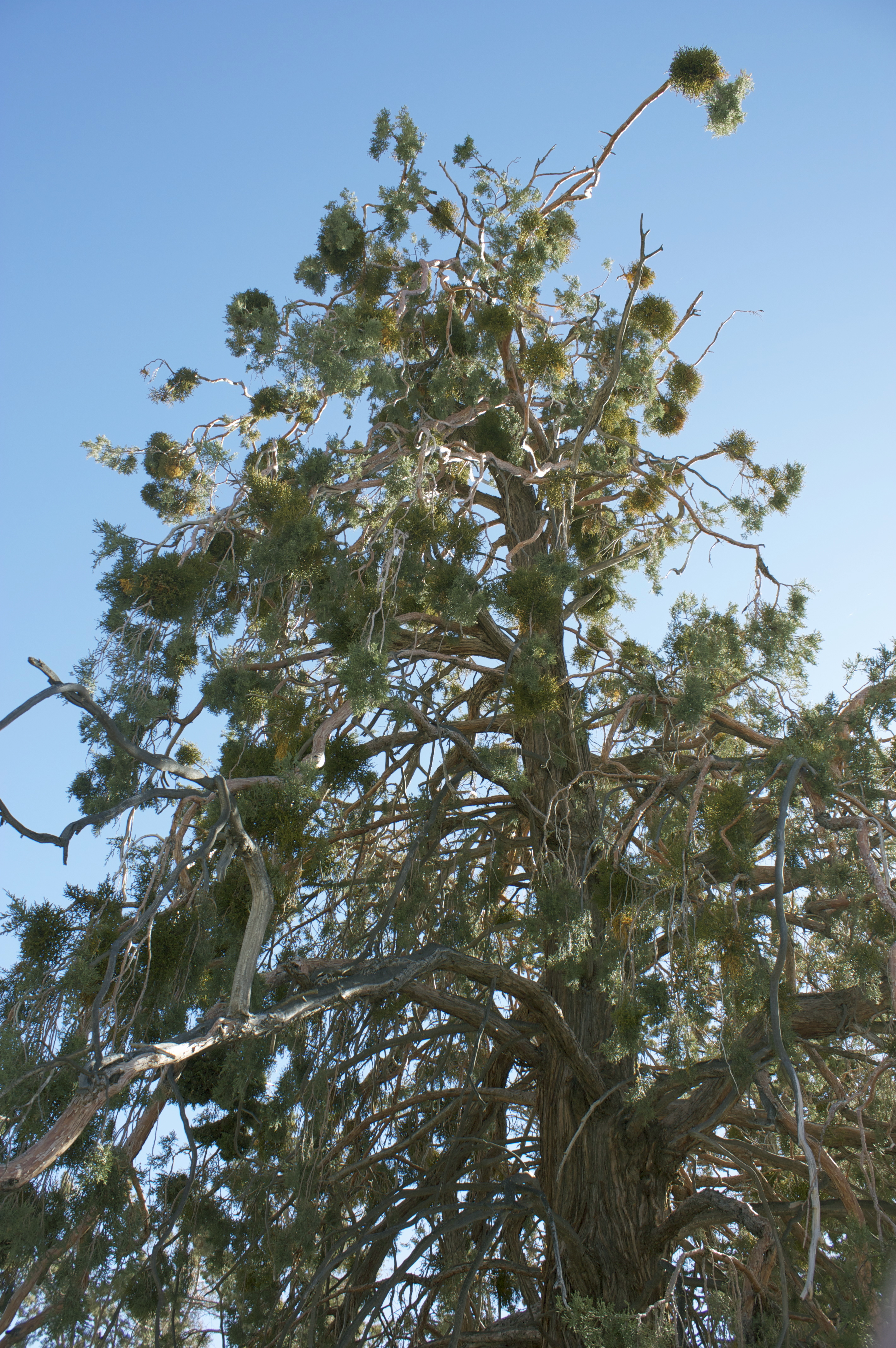 Calocedrus decurrens, top of old tree, heavily infected with Phoradendron libocedri. Big Bear Lake, San Bernardino Mts., California.